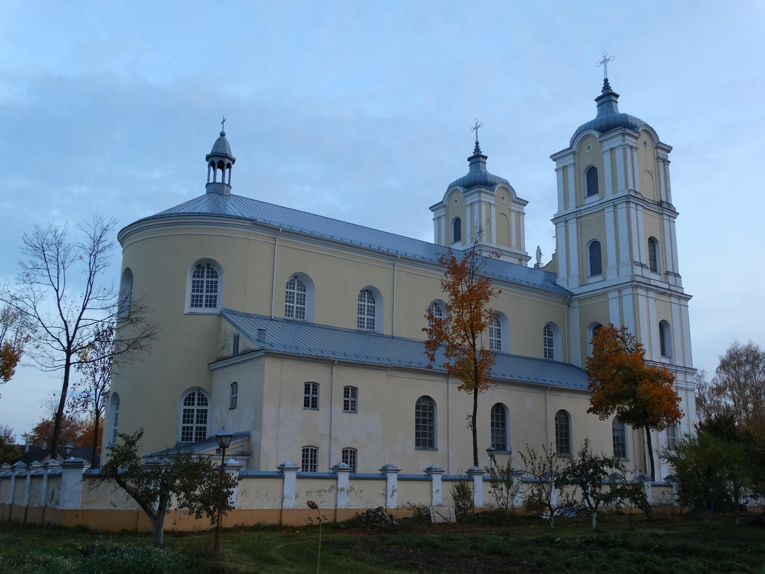 Roman Catholic Church, Kudirkos Naumiestis, Lithuania